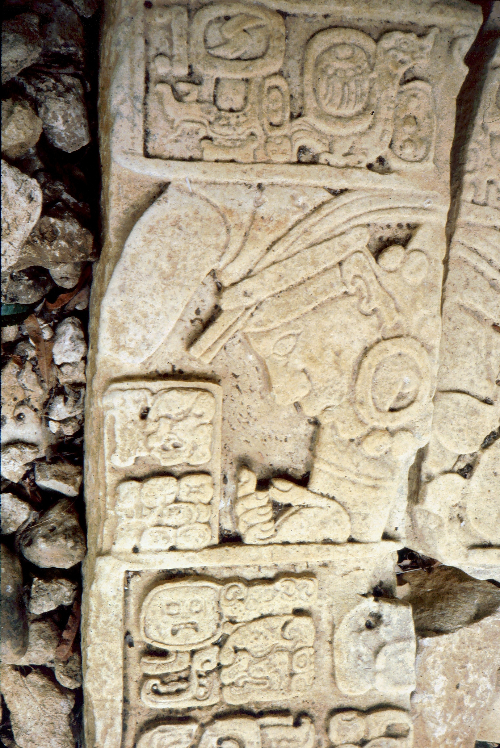 Dos Pilas Stela 16, showing the captured king of Seibal, Yich'ak Balam. The stela dates to AD 735.